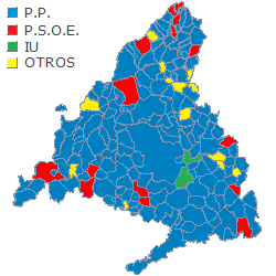 Results in the Community of Madrid in the local elections, 2011